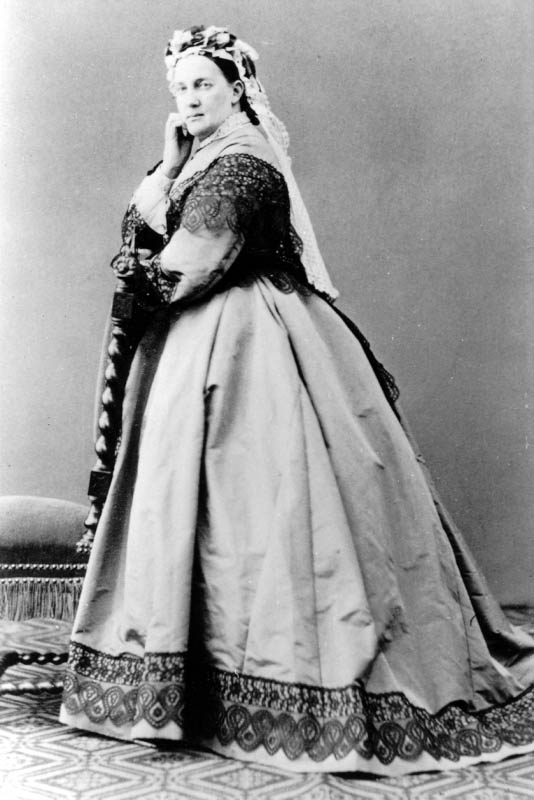 Grand Duchess Maria Nikolaievna, Duchess of Leuchtenberg (1819-1876)